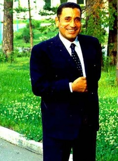 Cropped picture of Mohamed Hassanein Heikal